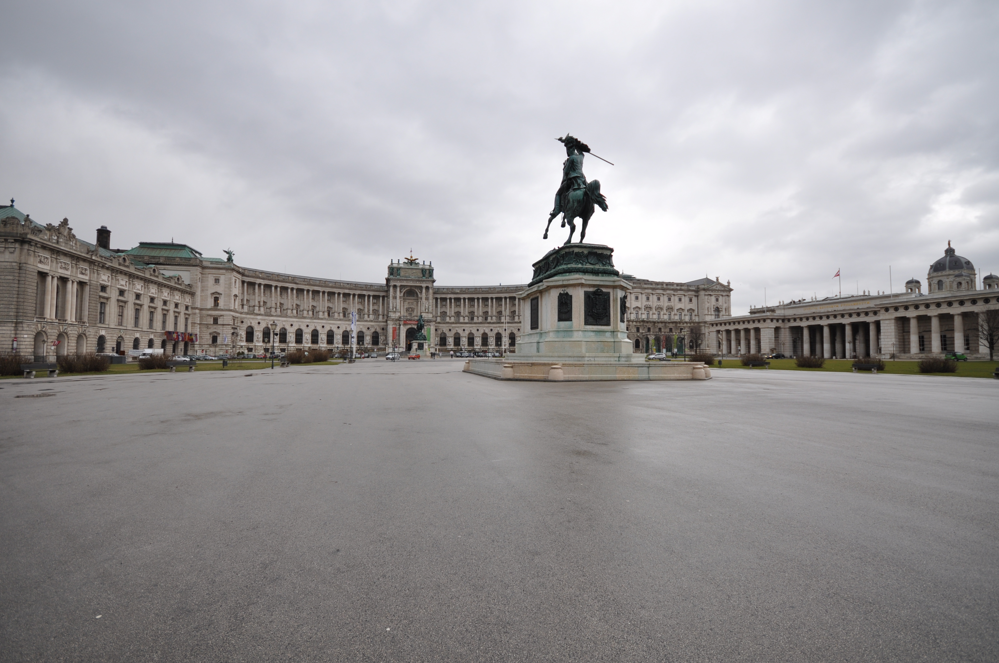 Austria, Vienna, Heldenplatz